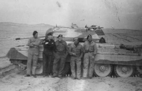 British tank crew of a Cruiser tank